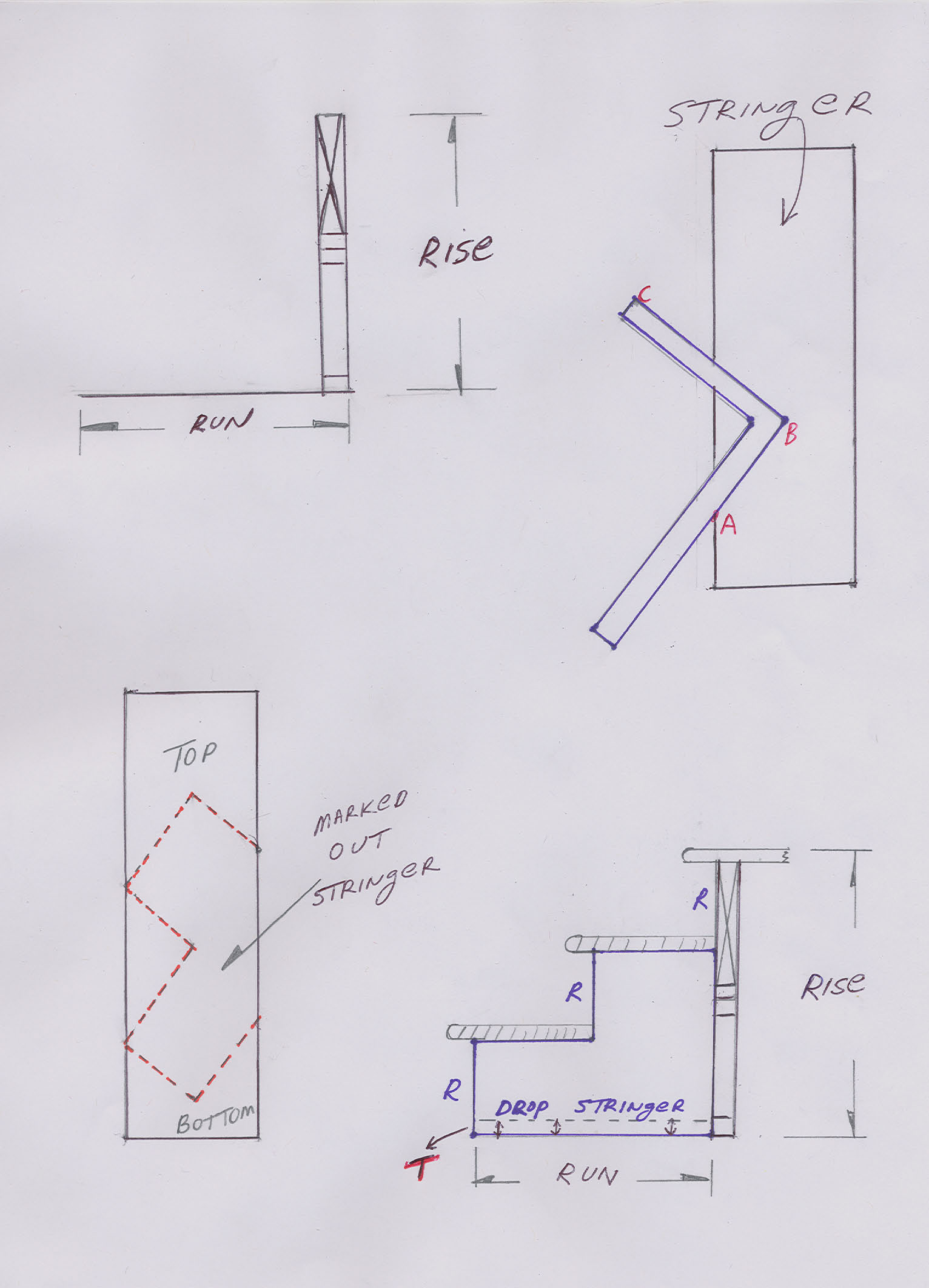 Sketched by Johnalden. This is a sketch of a stringer and its components